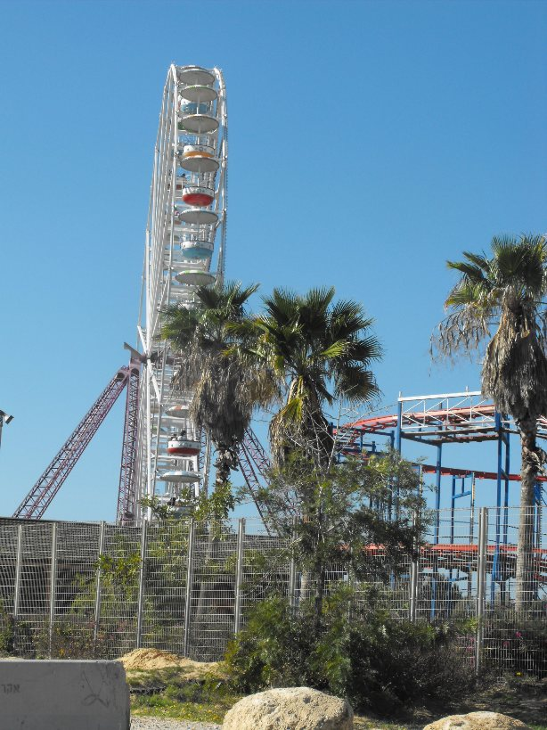 Photo taken from the nearby lake